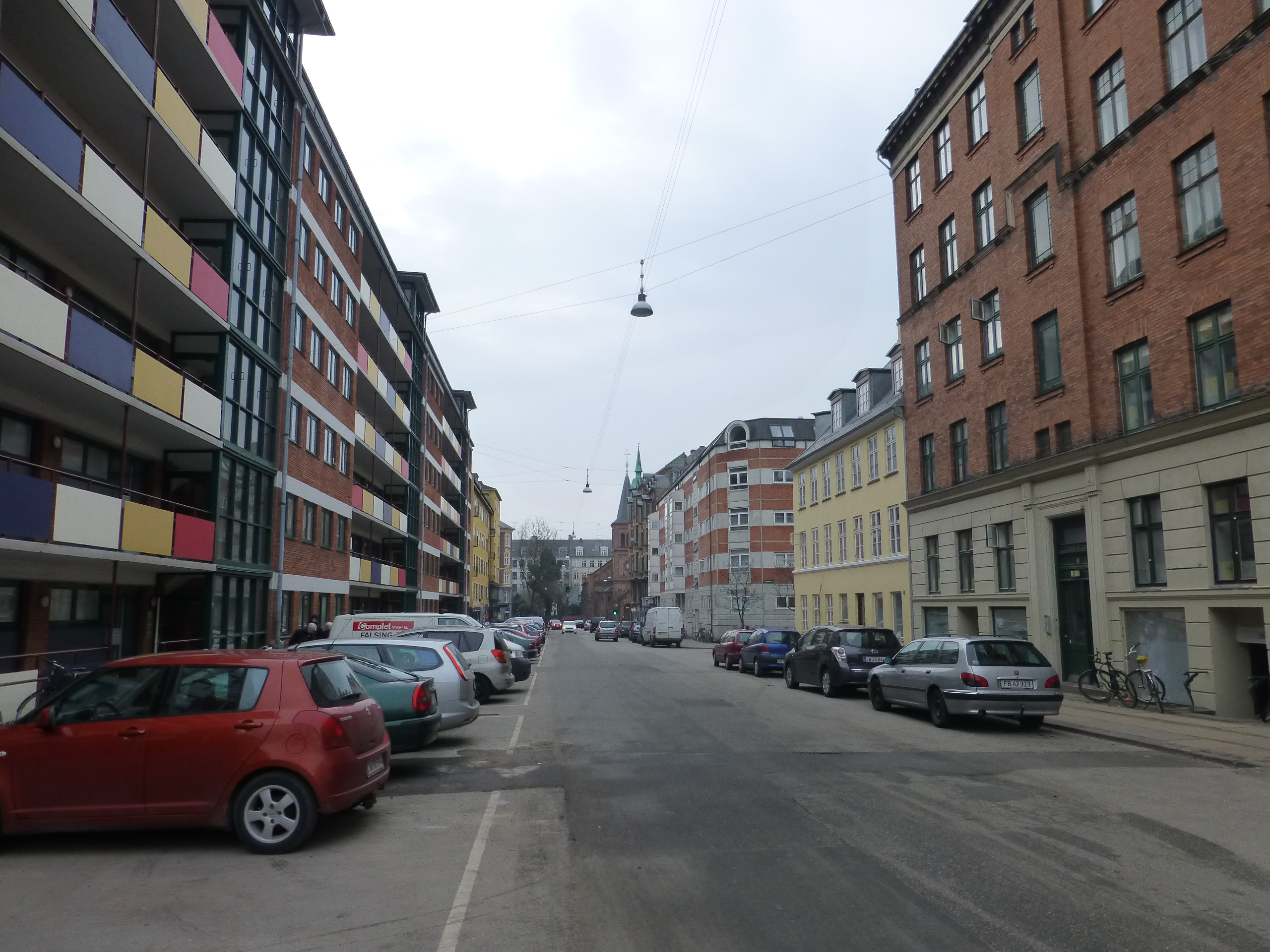 Gormsgade is a street in Nørrebro in Copenhagen.